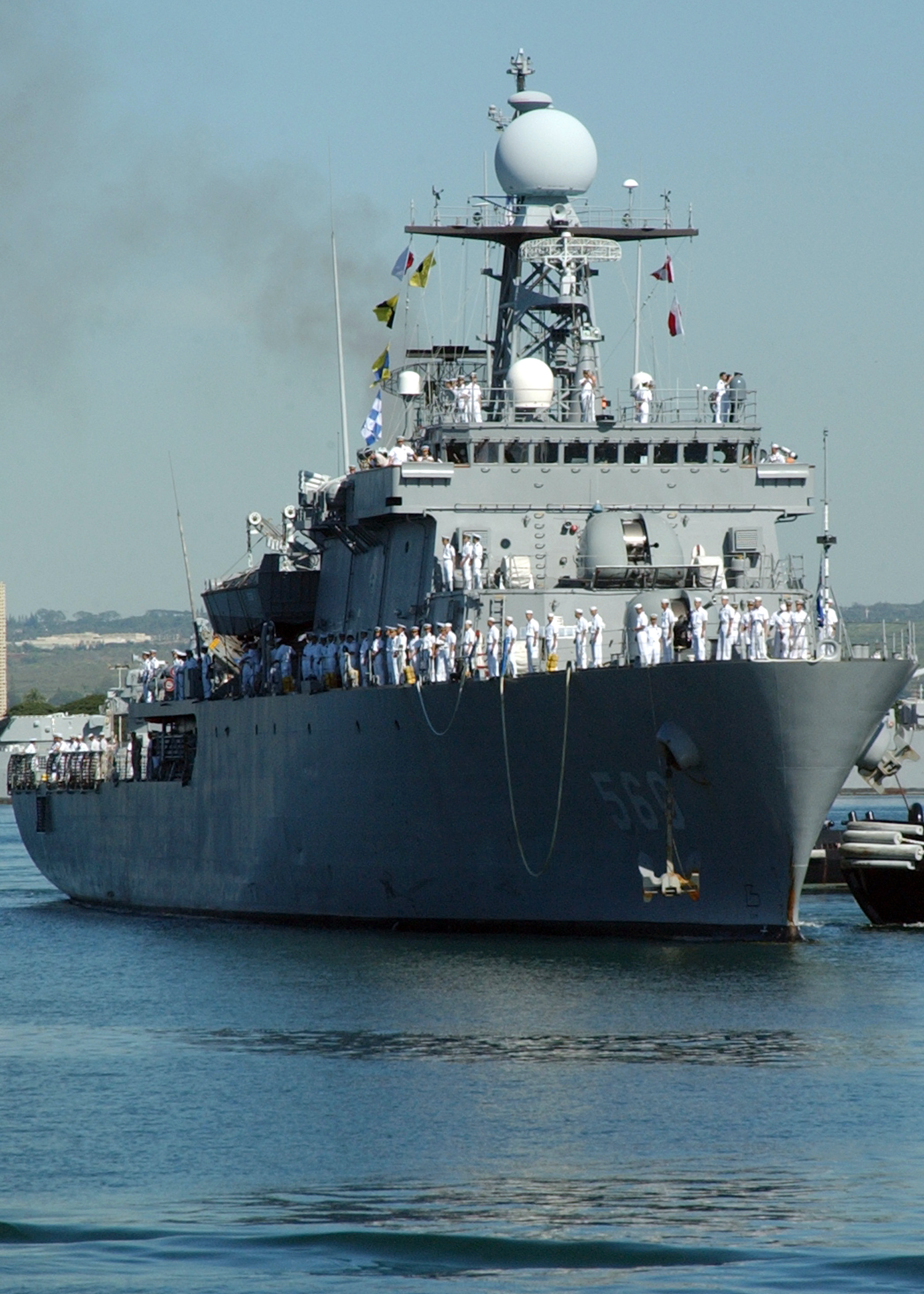 041014-N-3019M-001 Pearl Harbor, Hawaii (Oct. 14, 2004) - Republic of Korea minelayer ROKS Won San (MLS 560), enters Pearl Harbor, Hawaii, for a three-day port visit. Won San, along with ROKS Yangmanchoon (DDG 973) and ROKS Wha Chung (AOE 59) are on a three-month training deployment and goodwill tour under the command of Commander, Cruise Training Force, Rear. Adm. Sung-Gyue Oh. U.S. Navy photo by Journalist Seaman Ryan C. McGinley (RELEASED)